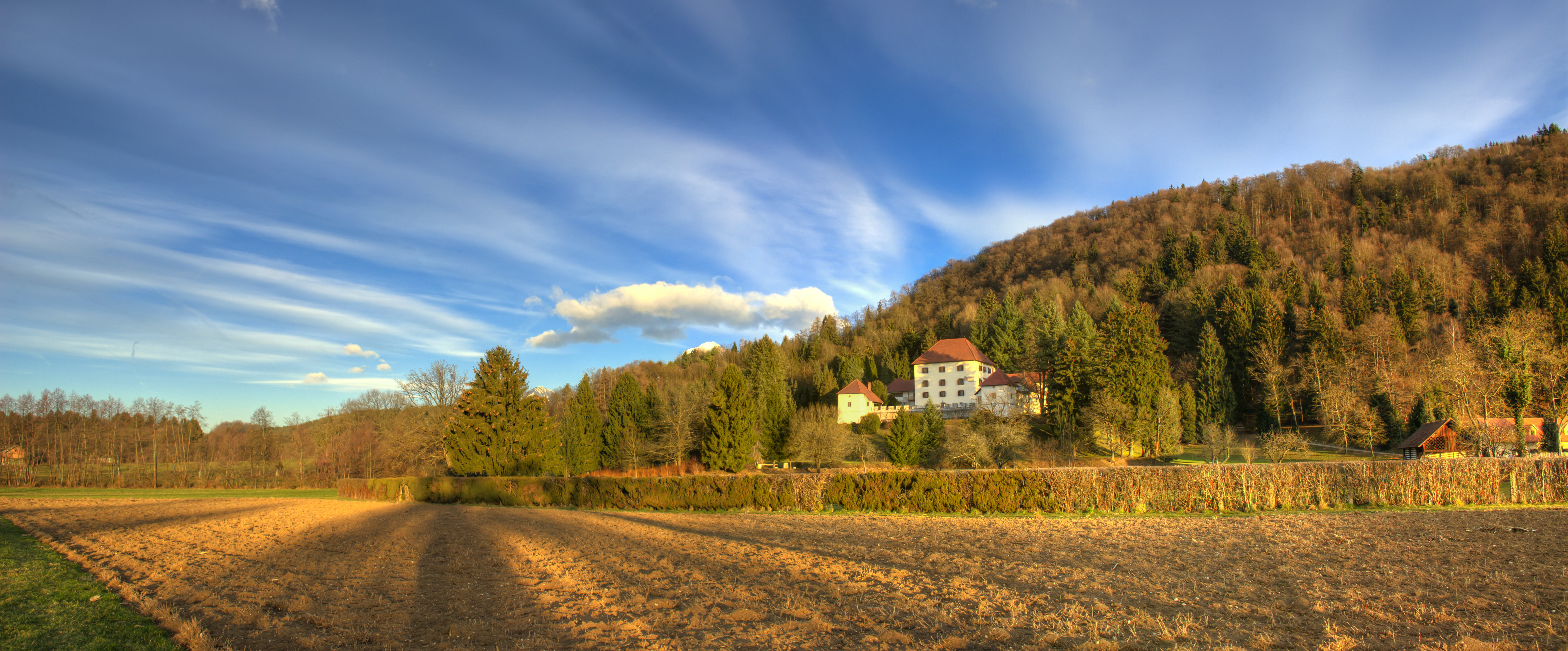 Strmol Castle